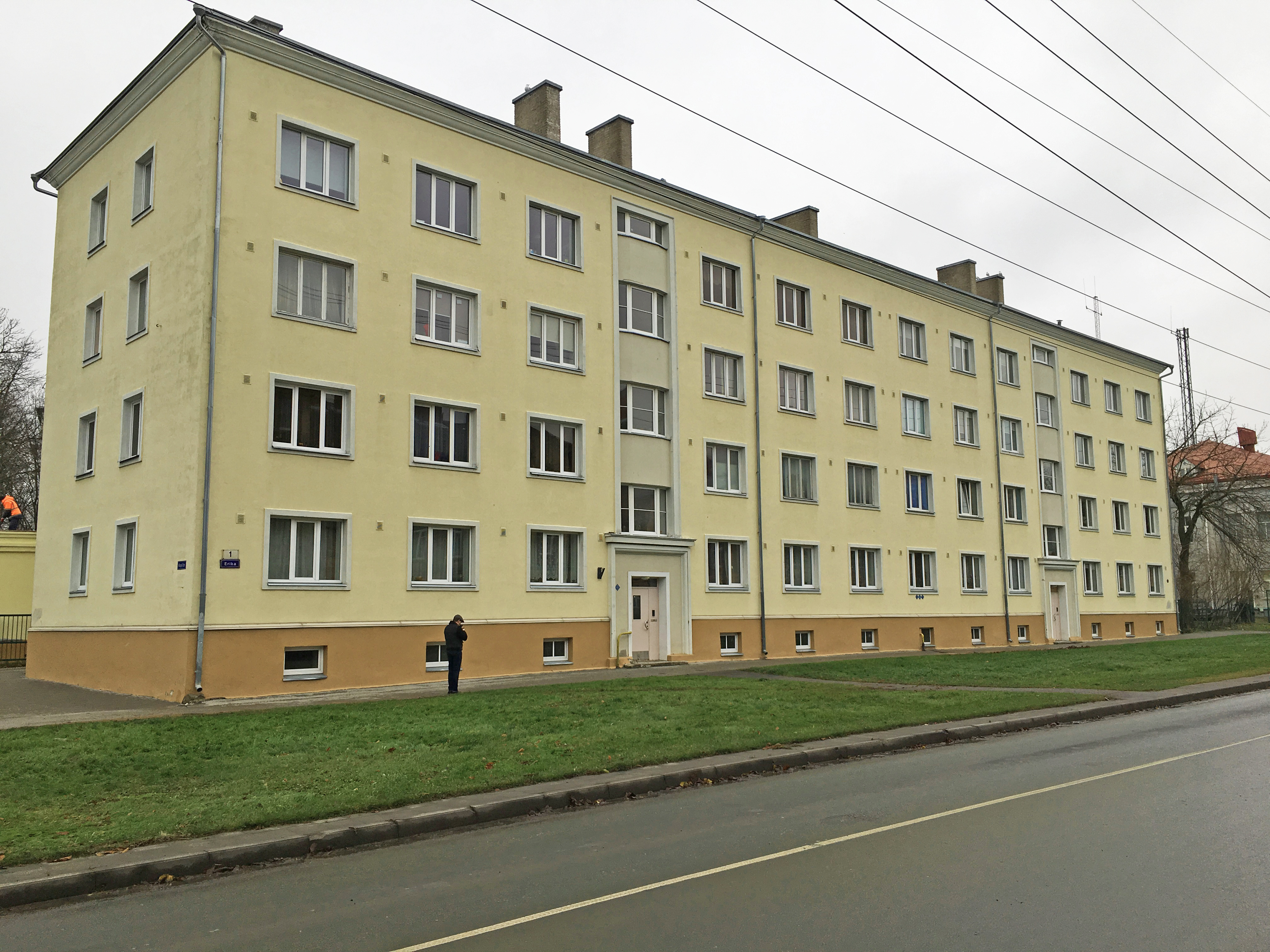 1 Erika Street, Tallinn, Estonia